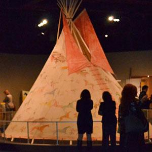 A nearly 5-meter-high muslin tipi from the Lakota people dominates the exhibit at the American Indian museum.